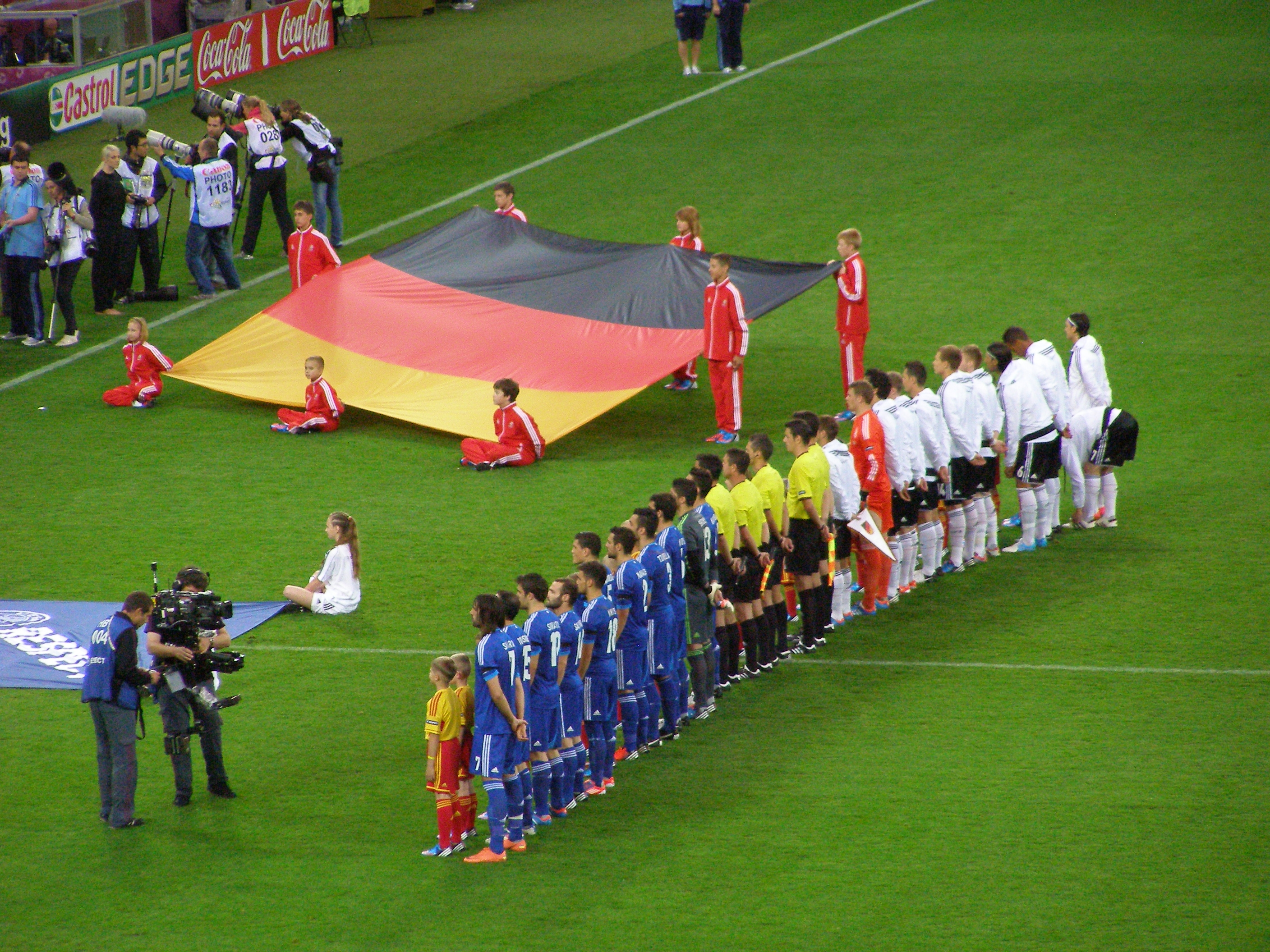 Gdańsk - PGE Arena - Euro 2012 - quarter final match Germany - Greece